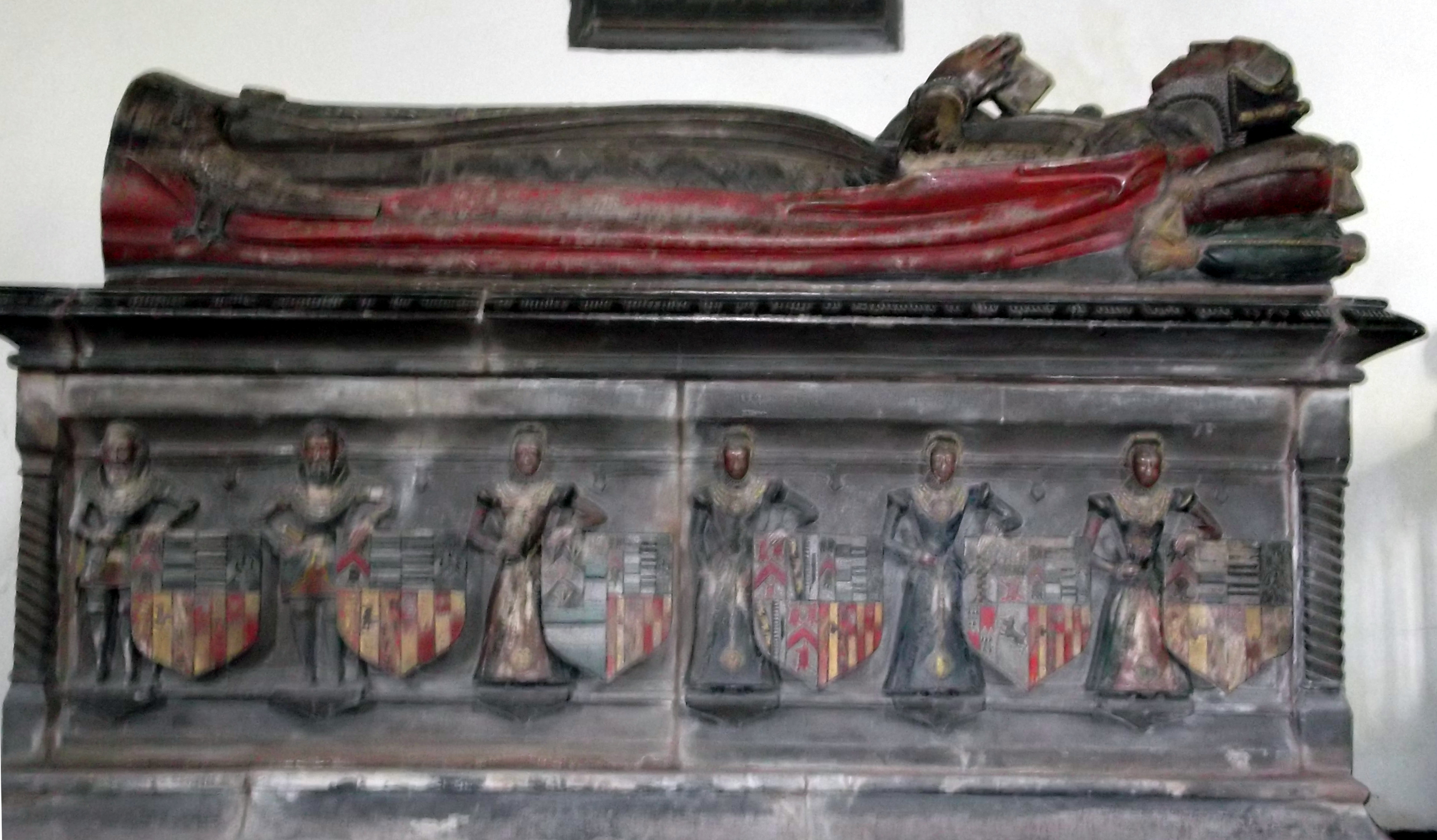 Tomb of Margaret Bromley and her husband, Richard Newport, St Andrew's church, Wroxeter, Shropshire.